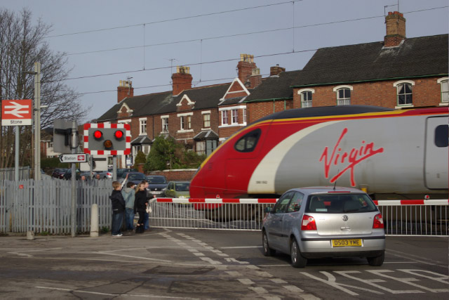 Level crossing, Stone A London - Manchester Pendolino passes through Stone on the direct line from Colwich, while motorists and a group of children wait patiently to cross between Station Road and Mount Road. Station Approach, to the left leads to Stone's station.